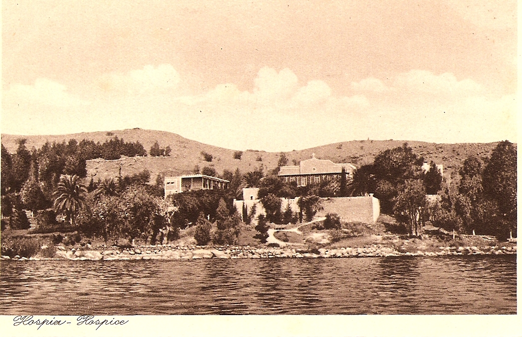 Ain Tabgha German Hospice